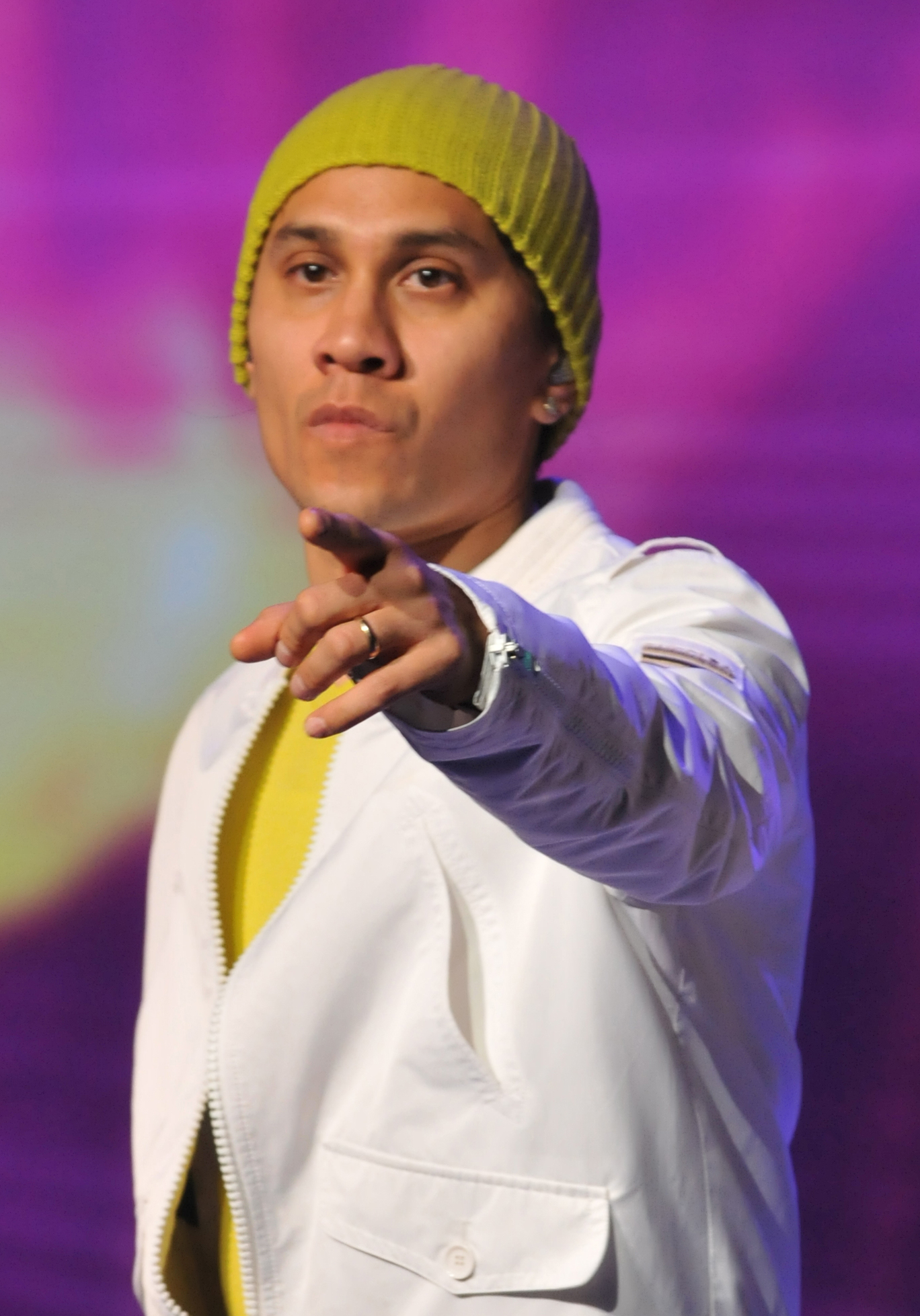 The Black Eyed Peas rocked the house for the crowd during the 2011 Walmart Shareholders Meeting.